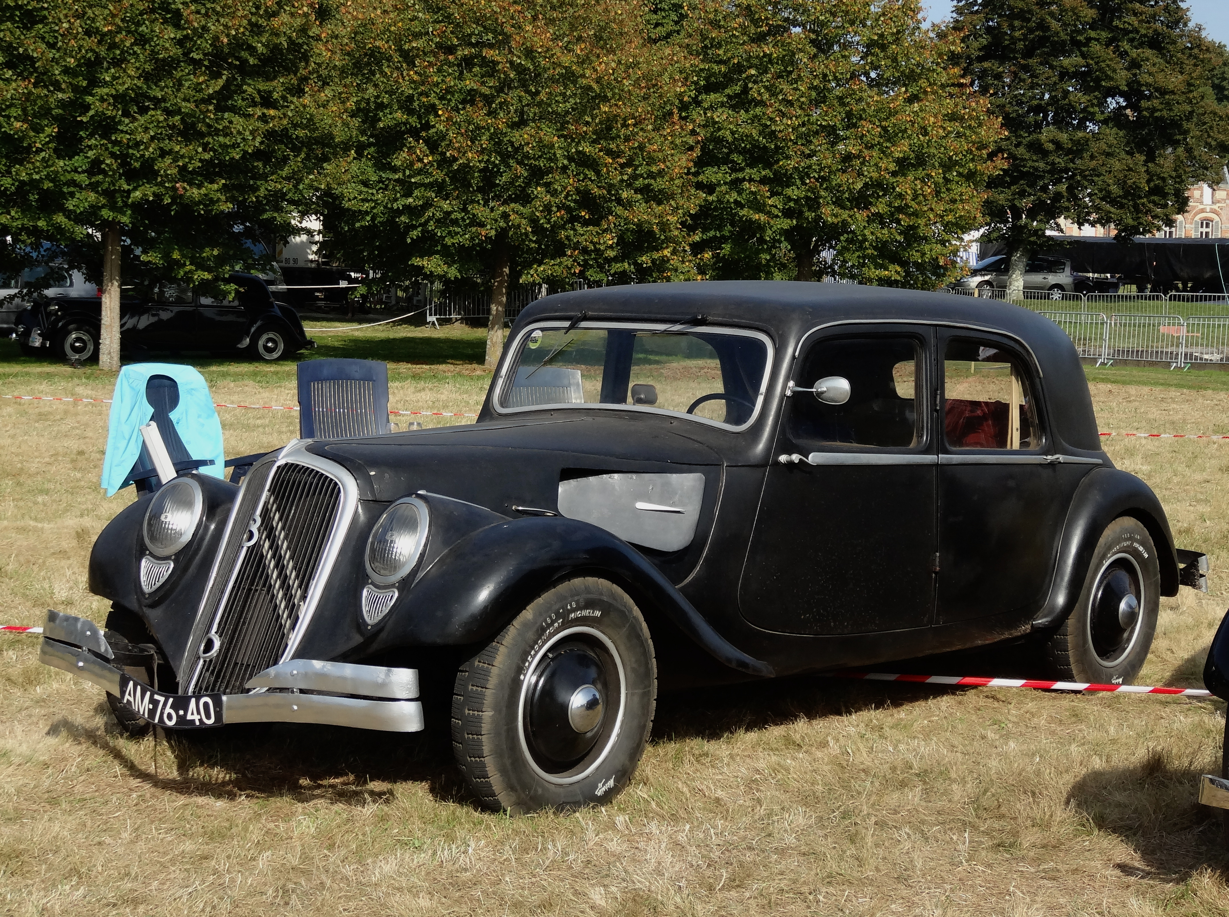 Prototype Traction 22 CV 8 cylindres, La Ferté-Vidame